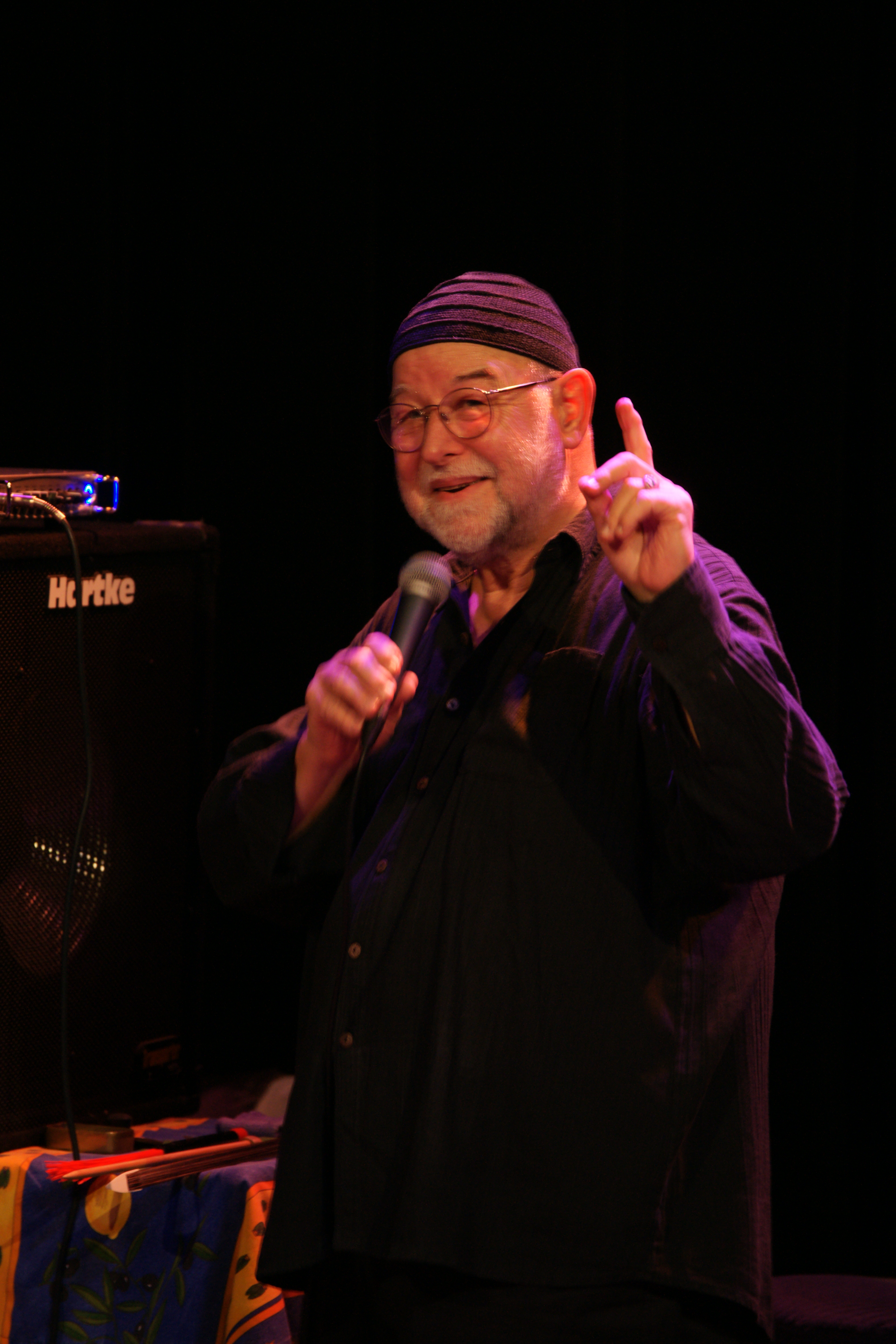 Henri Texier, Festival Jazz sous les bigaradiers, La Gaude 2014